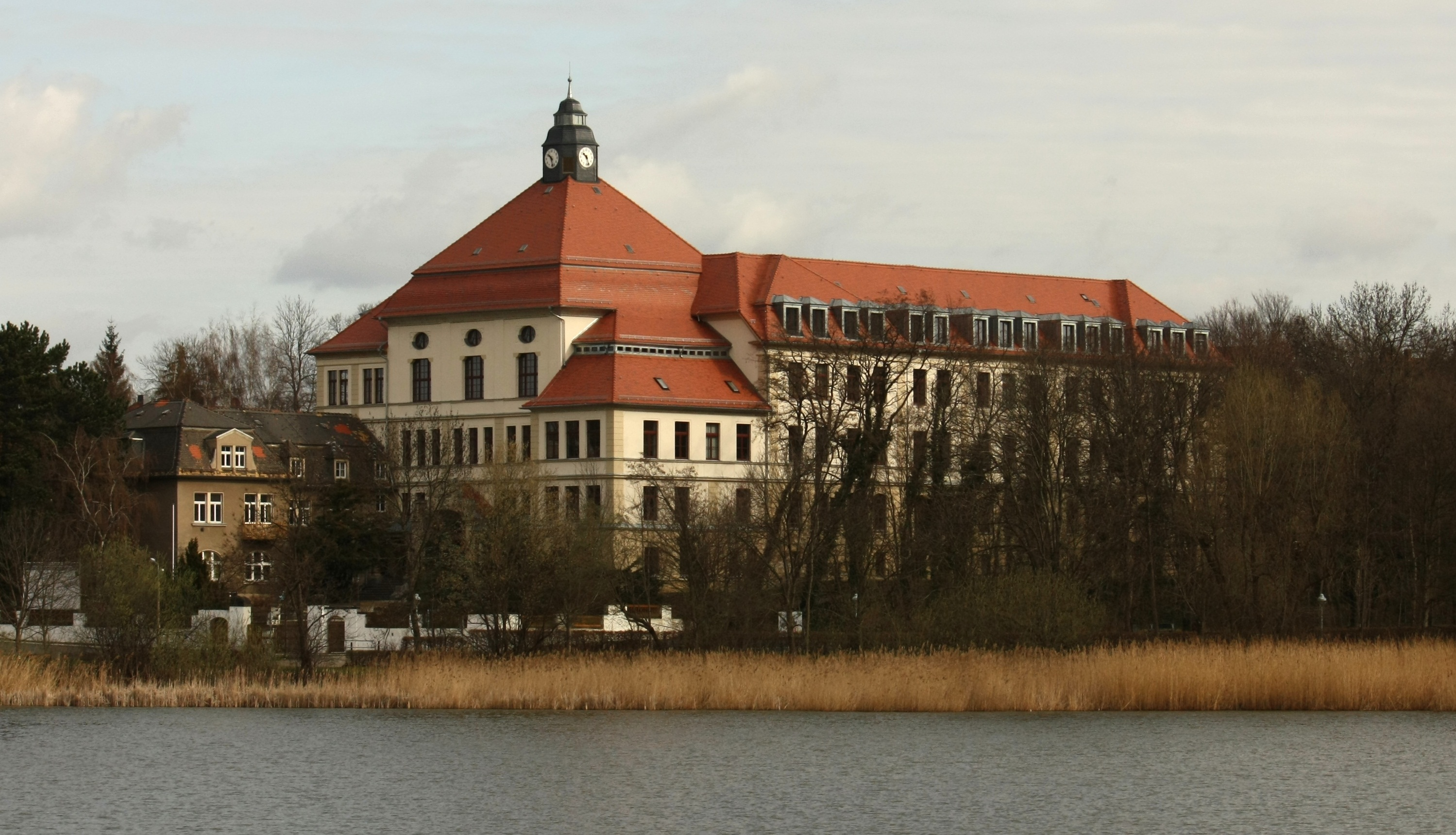 Gymnasium "Am Breiten Teich" at Borna/Saxony in Germany